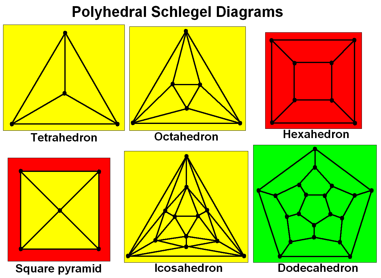 File:Polyhedral schlegel diagrams.svg is a vector version of this file. It should be used in place of this raster image when not inferior. File:Polyhedral schlegel diagrams.png File:Polyhedral schlegel diagrams.svg For more information, see Help:SVG. Templates:Vector version available/I18n Examples for schlegel_diagram